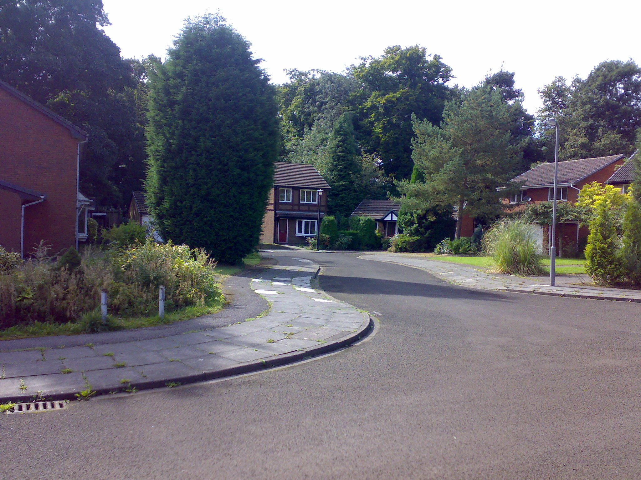 An abandoned Brookside Close on September 14th, 2007.